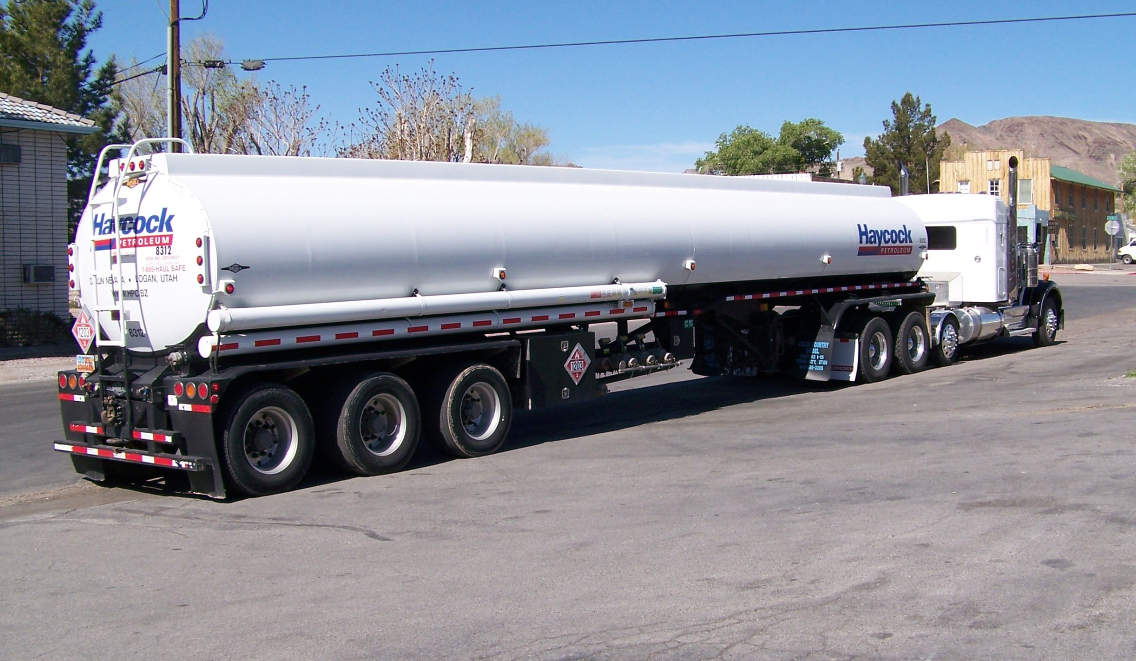 Very nice fuel truck owned by Haycock Petroleum. Seen in Beatty, Nevada. Trailer tires are Super Singles. They have an automatic inflation system in case one starts losing air. Pretty cool set-up.